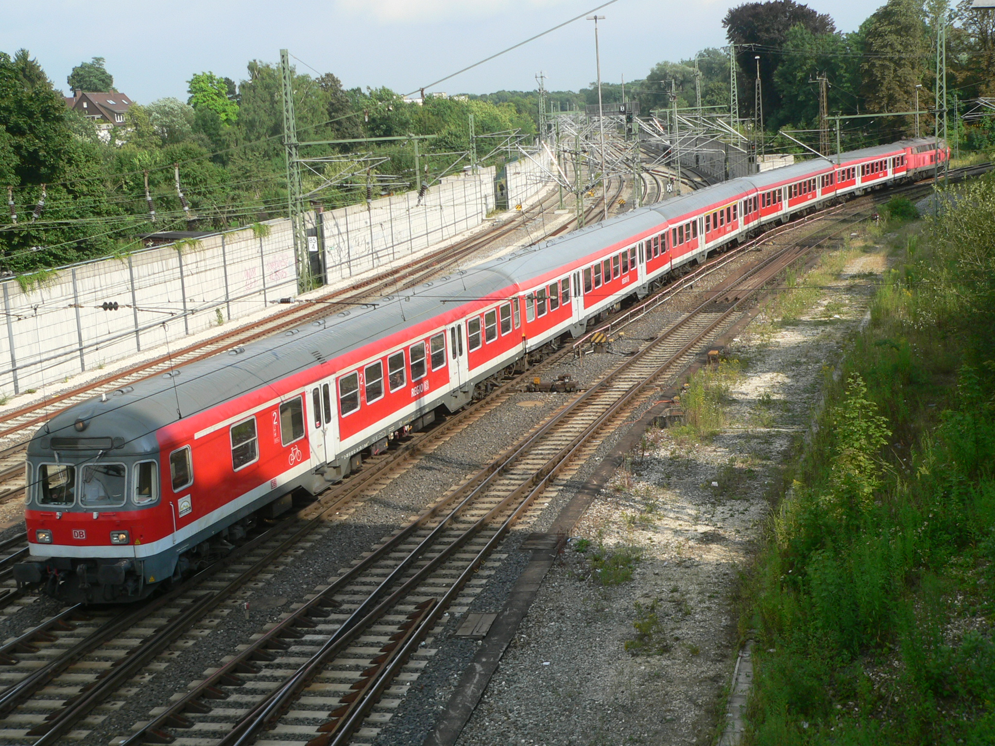 A train of N-class coaches in Ulm, Germany